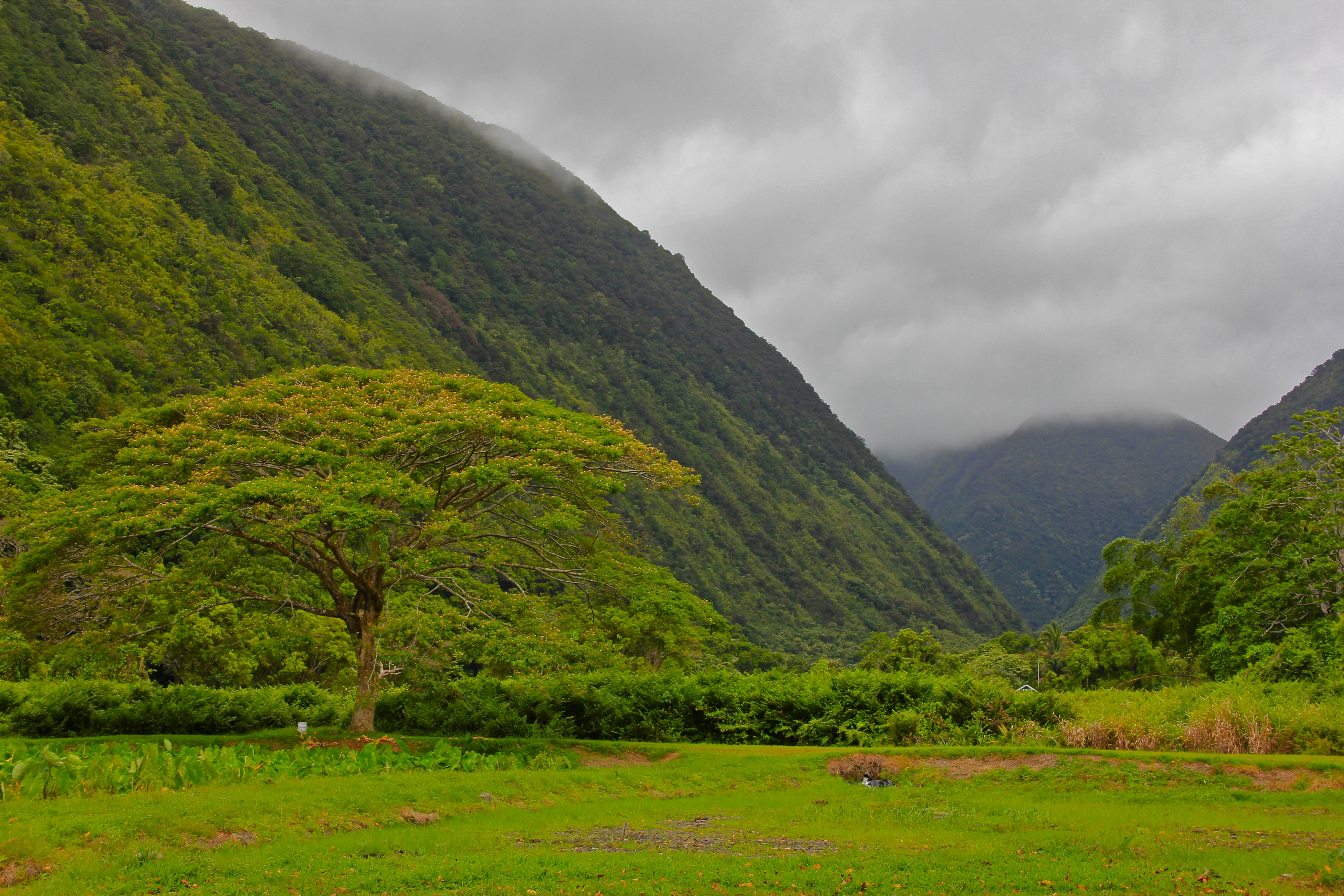 Waipio Valley, Big Island, Hawaii